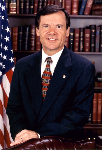 Timothy Hutchinson, former member of the United States Senate from Arkansas.